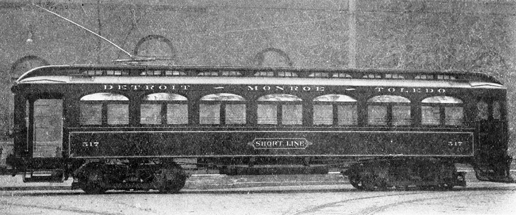 Railroad car of Detroit, Monroe and Toledo Railroad. Identifier: streetrailwayjo251905newy Title: The Street railway journal Year: 1884 (1880s) Authors: Subjects: Street-railroads Electric railroads Transportation Publisher: New York : McGraw Pub. Co. Text Appearing Before Image: equipped with two large storage tanks;these tanks deliver at a pressure of 250 lbs., through a pressure-reducing valve to a small service reservoir, from which thebrake connections are made in the usual manner. The air-brake equipment was supplied by the «Westinghouse Traction Brake Com-pany, the style of system used beingthe Westinghouse straight-air sys-tem, type SM-i. The compressor, which is a Halltwo-stage steam-driven machine, isinstalled in the basement of the en-gine room, together with the storageand cooling tanks. It has amplecapacity for the operation of theroad, and is controlled automaticallyby the pressure in the storage tanks.Delivery is made to cars at the sideof the power house, next to the carhouse, through a Ions: hose which is tional safety is insured by the use of a despatching system.Telephone booths are located at every passing track from whichthe motormen call up the despatcher and receive orders forproceeding in case of disarranged schedule, etc. These tele- Text Appearing After Image: rHE NEW STANDARD OF PASSENGER CAR FOR HIGH-SPEED OPERATION